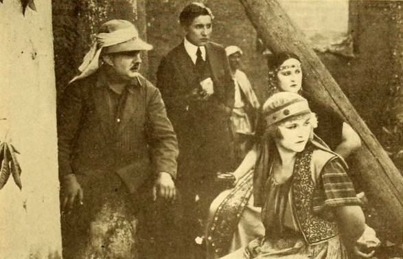 Still from the American film serial The Silent Mystery (1918) with an unidentified actor, Philip Ford, Mae Gaston, and Rosemary Theby, on page 371 of the January 18, 1919 Moving Picture World.